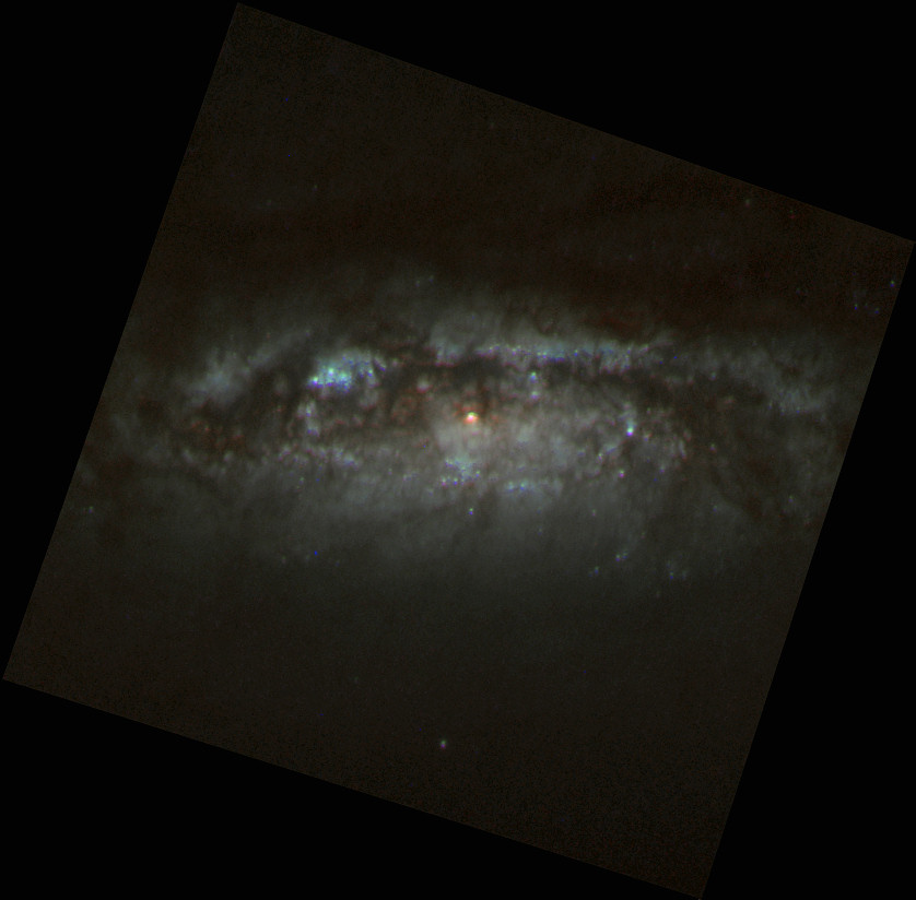 Spiral galaxy NGC 3593 core, by HST